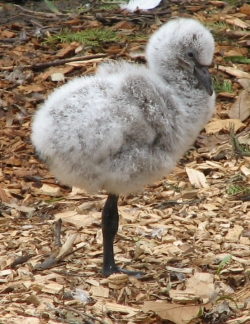 Juvenile Chilean Flamingo (Phoenicopterus chilensis), this is a new hatchling. Photo taken at the Louisville Zoo